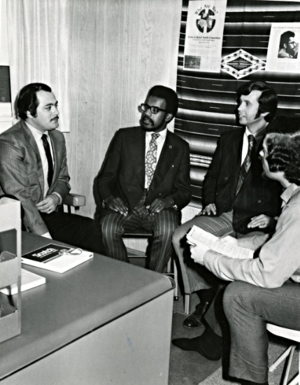 Left to right: Lupe de Leon,Jr., Hubert Brown, Art Smoker, and Dan Shenk Citation: Mennonite Board of Missions Minority Ministries Council Records, 1969-1997. IV-21. Mennonite Church USA Archives - Goshen. Goshen, Indiana.